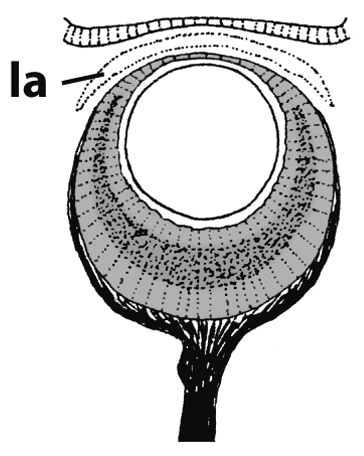 Lens eye of Nucella lapillus la = lacuna.